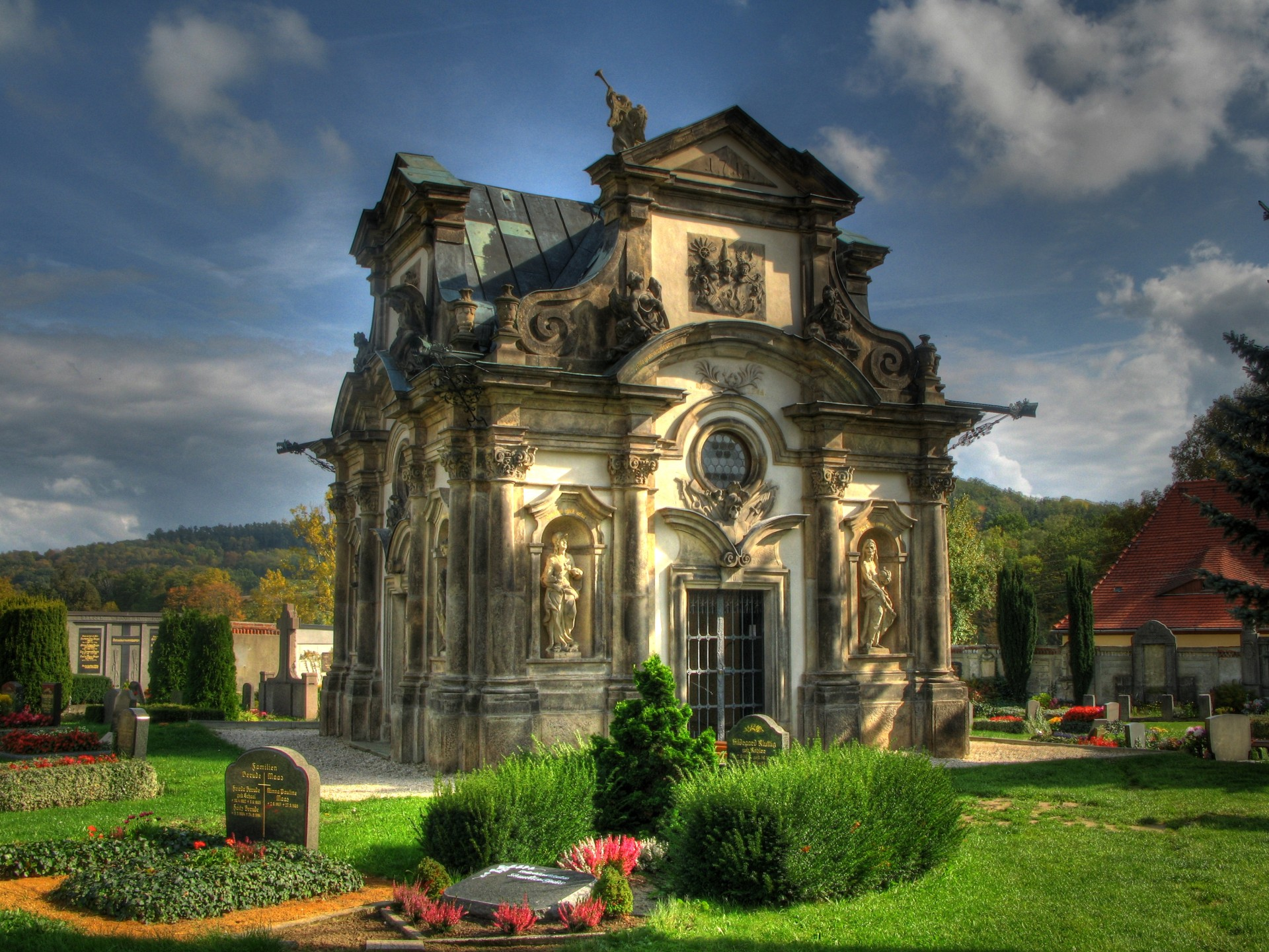 The Kanitz-Kyaw tomb in Hainewalde.